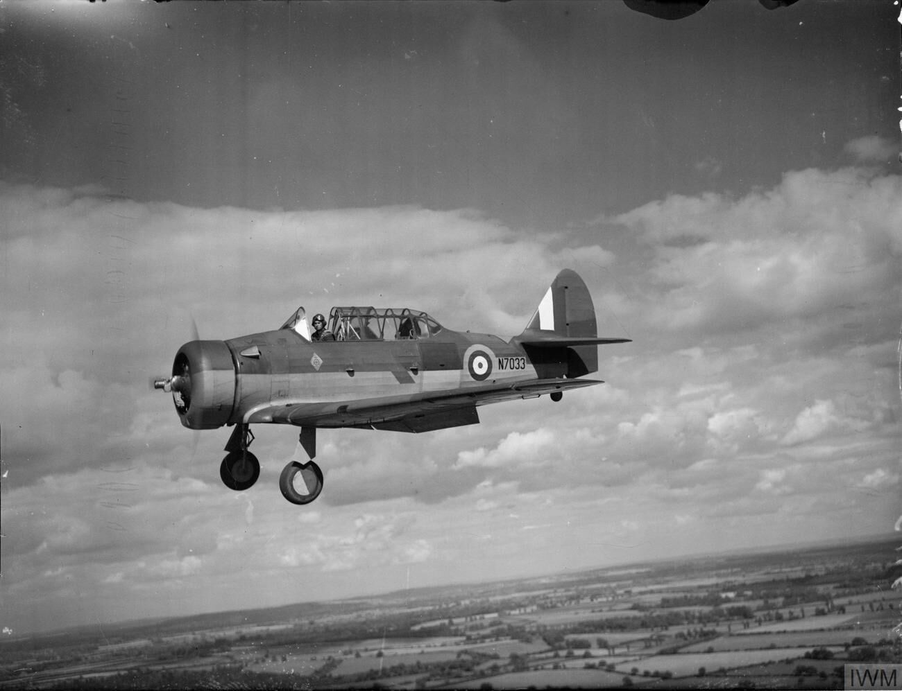 American Aircraft in RAF Service 1939-1945- North American Na-16 and Na-66 Harvard. Harvard Mark I, N7033, of No. 2 Service Flying Training School based at Brize Norton, Oxfordshire, in flight with undercarriage lowered.